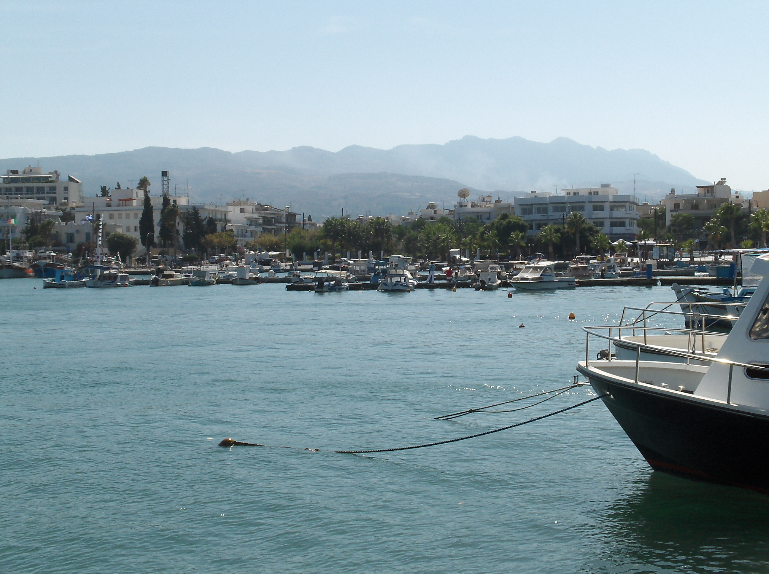 Kos harbour.